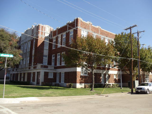 James W. Fannin Elementary, Dallas Independent School District